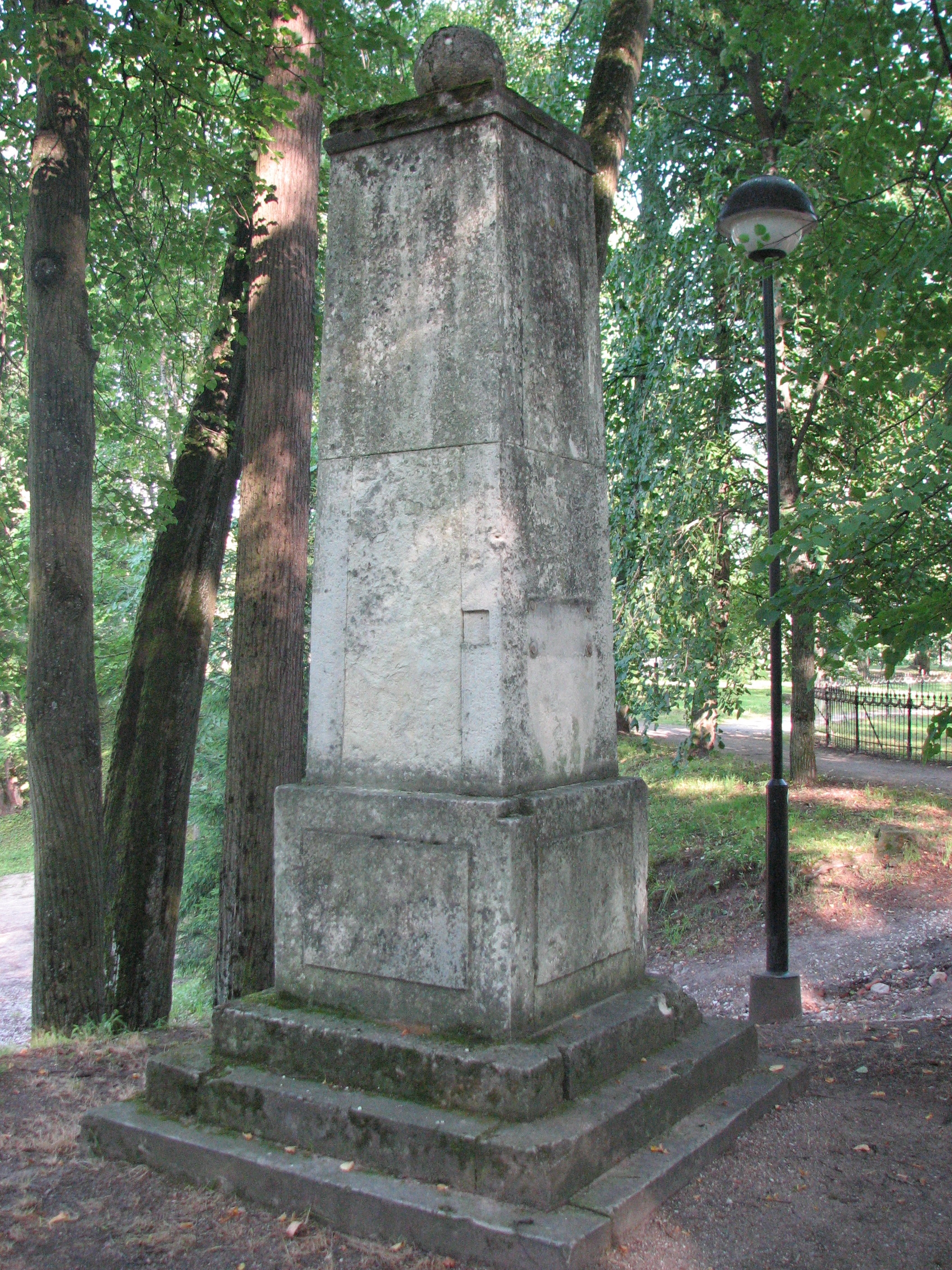 Monument to Karl Morgenstern in Tartu, Estonia